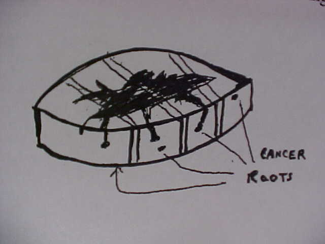 False negative in standard bread loafing histology